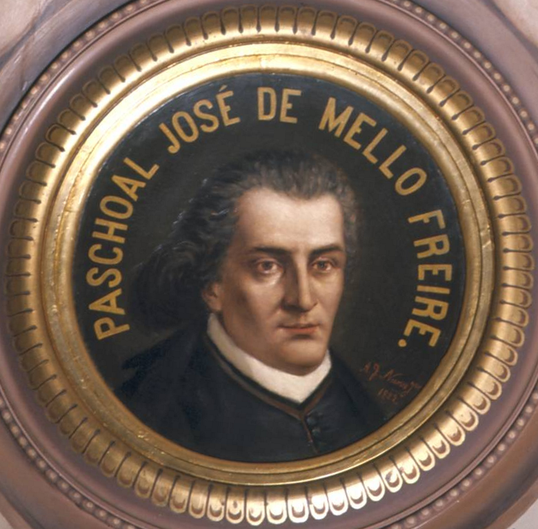 Painting of Pascoal José de Melo Freire, in the ceiling of the Great Hall of the Lisbon City Hall.